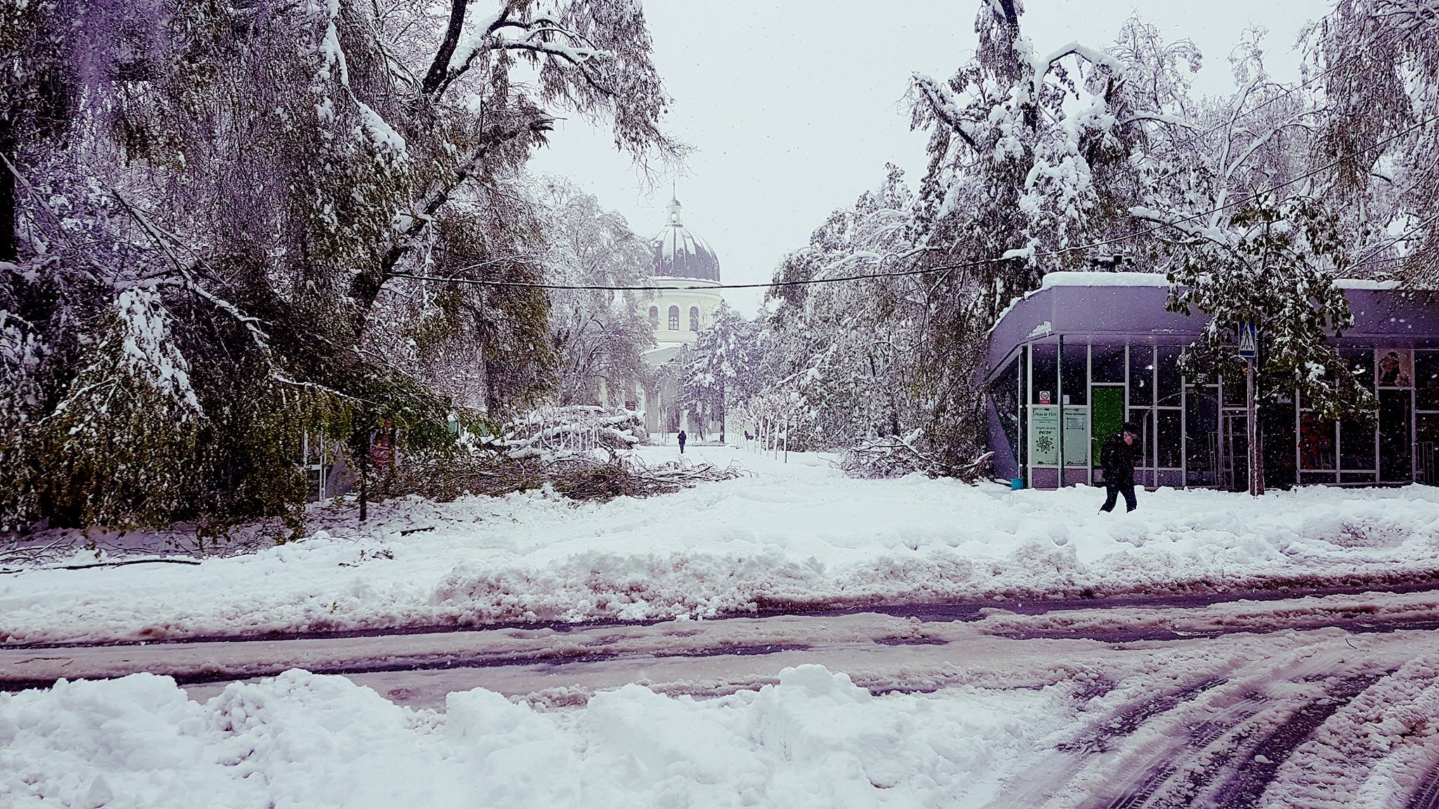 Park of the Nativity Cathedral in the center of Chișinău, with trees severely damaged by snow during a snowfall in an unusual time of the year, April 2017